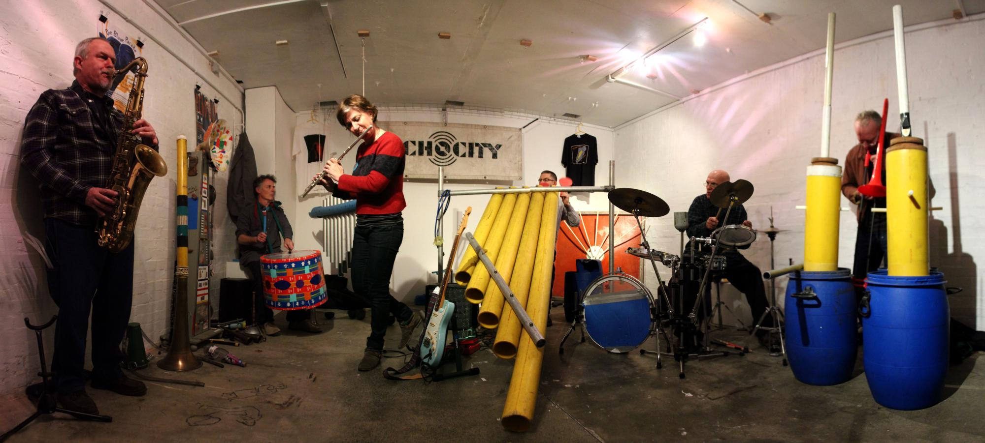 The band Echo City. Left to right: Rob Mills (saxophone), Giles Leaman (drums), Julia Farrington (flute), Giles Perring (batphones), Guy Evans (drumkit) and Paul Shearsmith (water flutes).